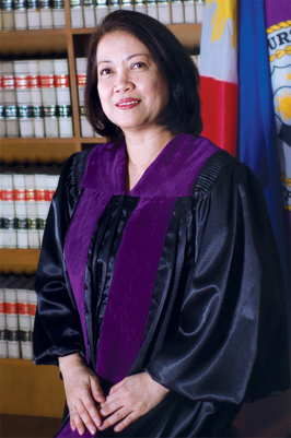 Official photograph of Chief Justice Maria Lourdes Sereno.